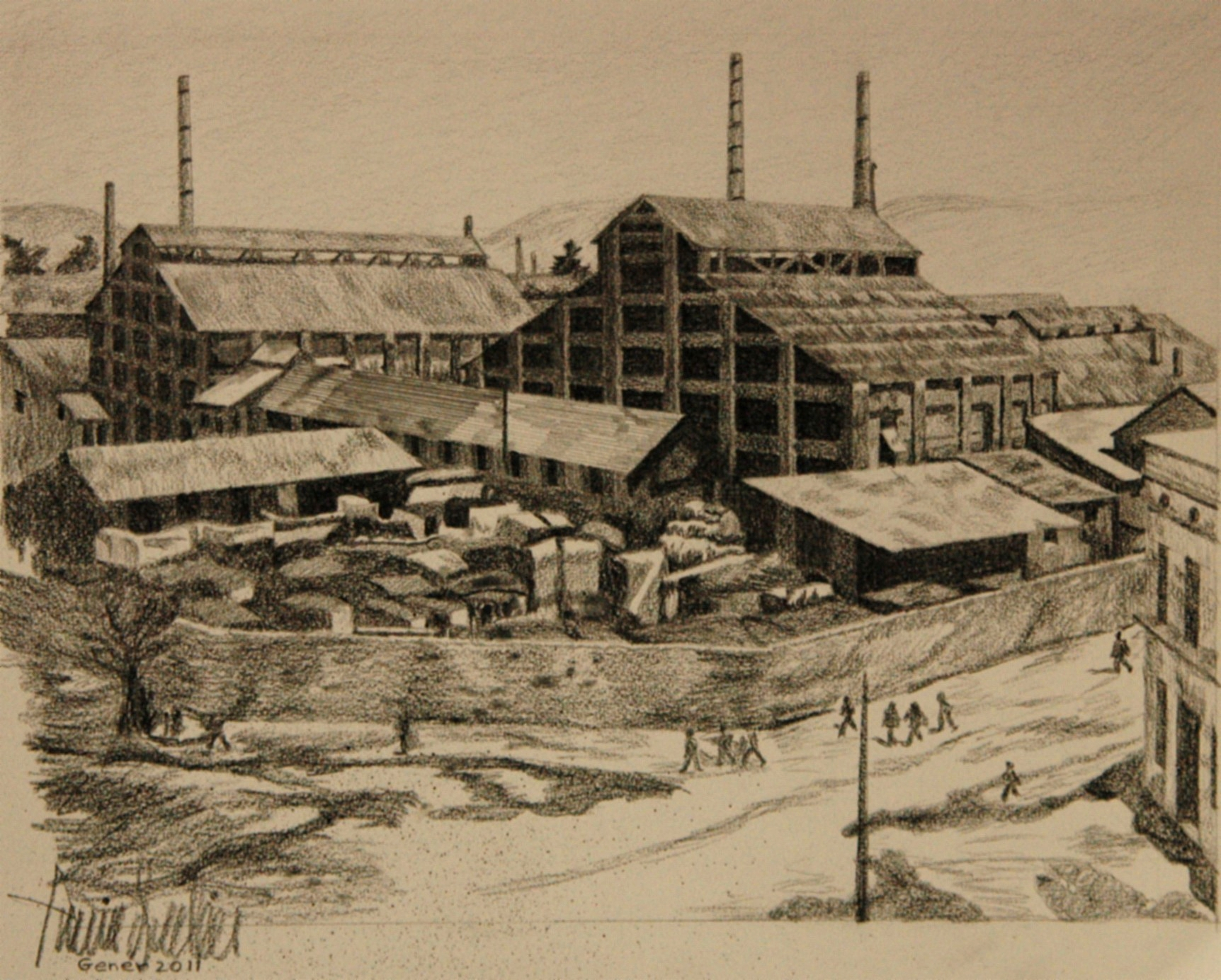 Appearance recreation of ancient factory "Vidriera Barcelonesa", also called "Botonería Barcelonesa" owned by "Juan y Cayetano Vilella SenC" from Joan and Gaietà Vilella i Puig, that was active in Poblenou neighbour Fluvià street in Barcelona since 1896 to 1977.